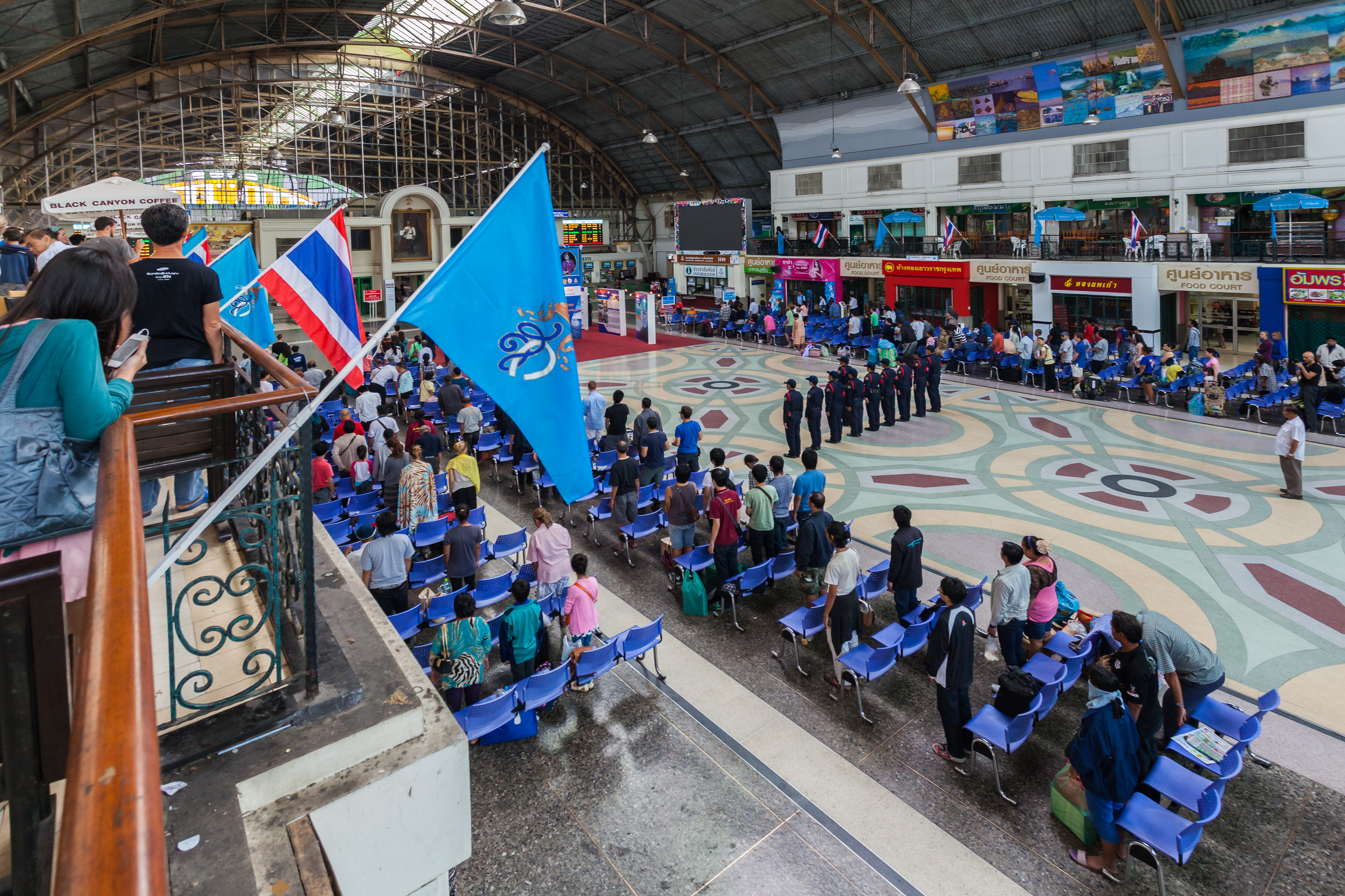 Hua Lamphong Railway Station, Bangkok, Thailand